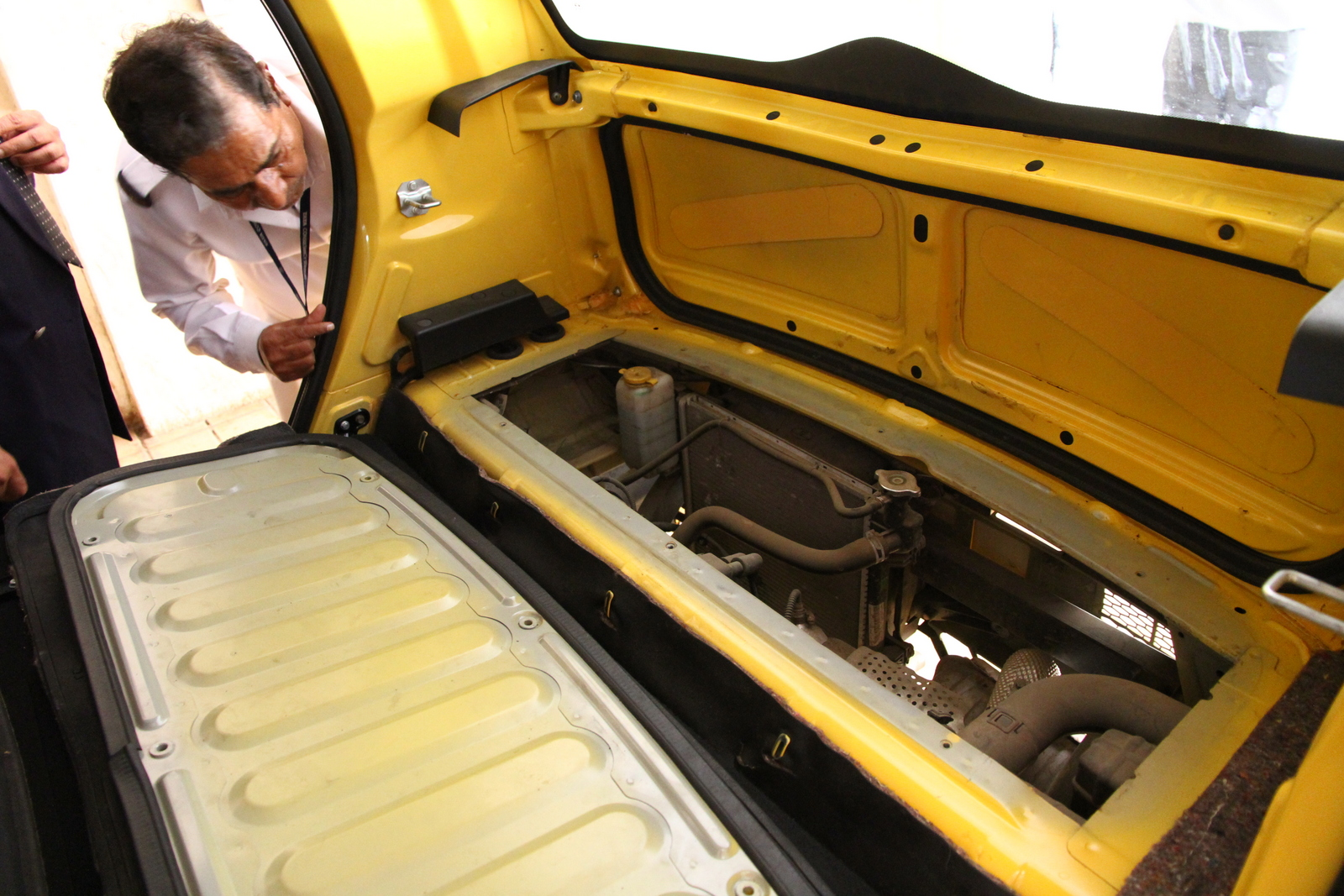 Tata Nano engine in the trunk that's only accessible from inside as a cost reduction feature. The back seats have been removed to reveal the engine in this photo.